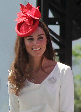 Catherine, Duchess of Cambridge, on her first royal tour, visiting Ottawa for Canada Day celebrations.